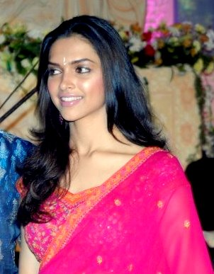 Snap of Deepika Padukone in Saree clicked in a private wedding function.